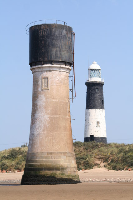 Spurn Lighthouse, Spurn Point, East Riding of Yorkshire, England.